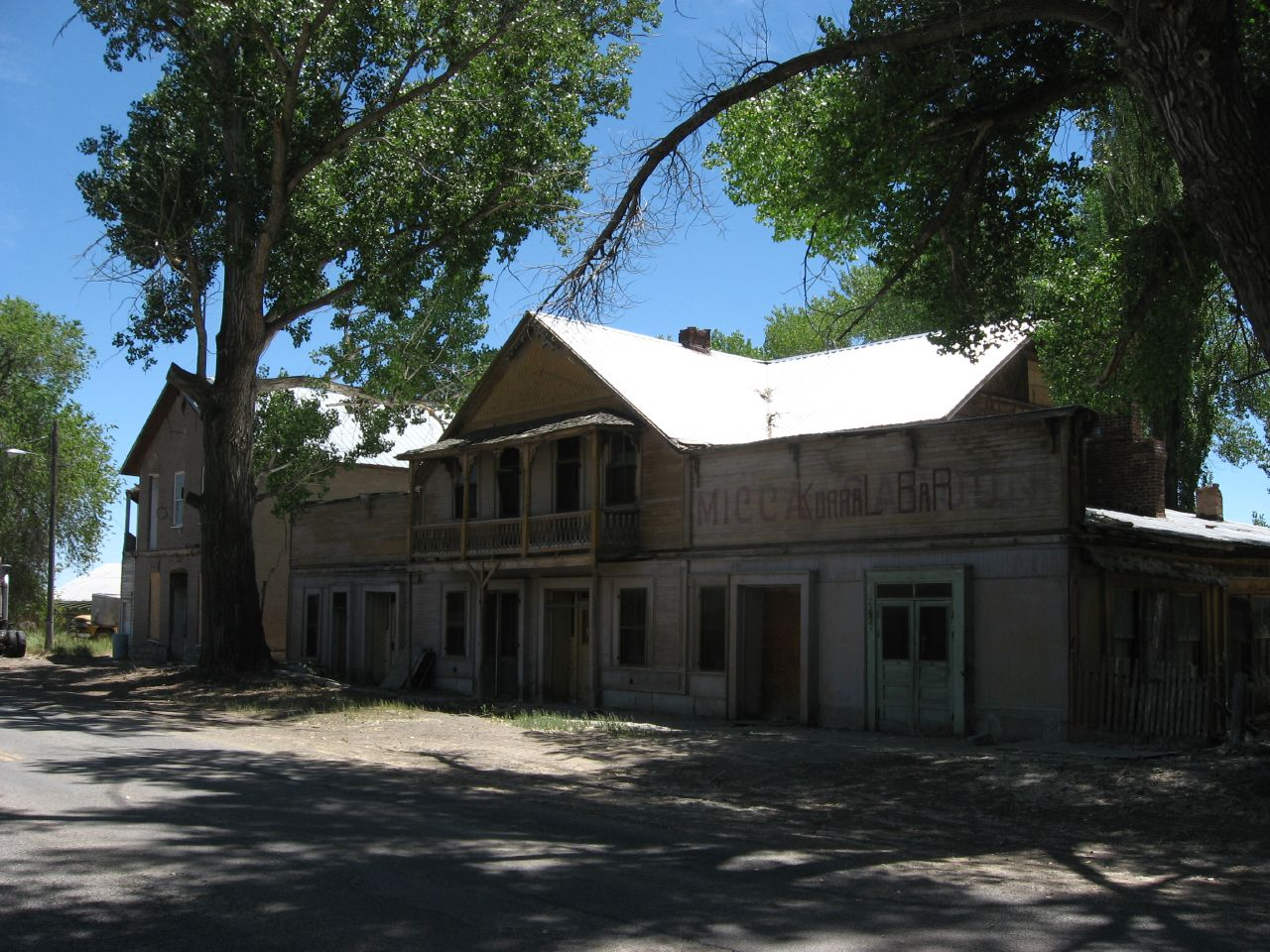 Micca House, a historic building in Paradise, Nevada. Paradise Valley, Nevada is an isolated and picturesque hamlet in northern Nevada.